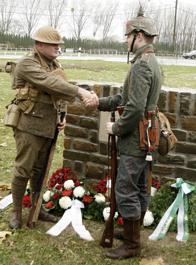 Re-enactors Peter Knight and Stefan Langheinrich, descendants of Great War veterans, shake hands at the 2008 unveiling of a memorial to the 1914 Christmas Truce.